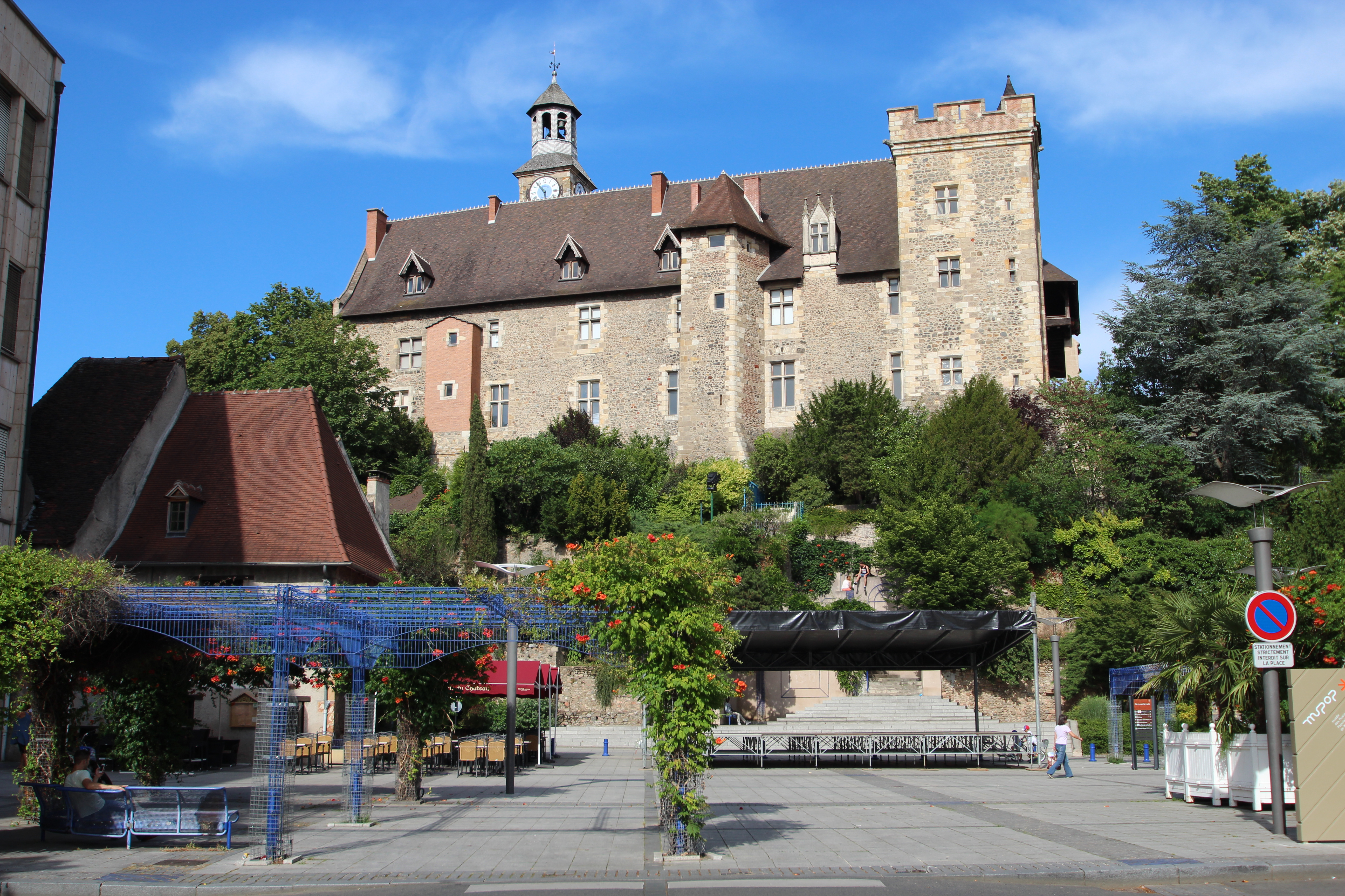 Château des ducs de Bourbon (Castle of the Dukes of Bourbon) in Montluçon, France. . Object location46° 20′ 24.23″ N, 2° 36′ 12.77″ E